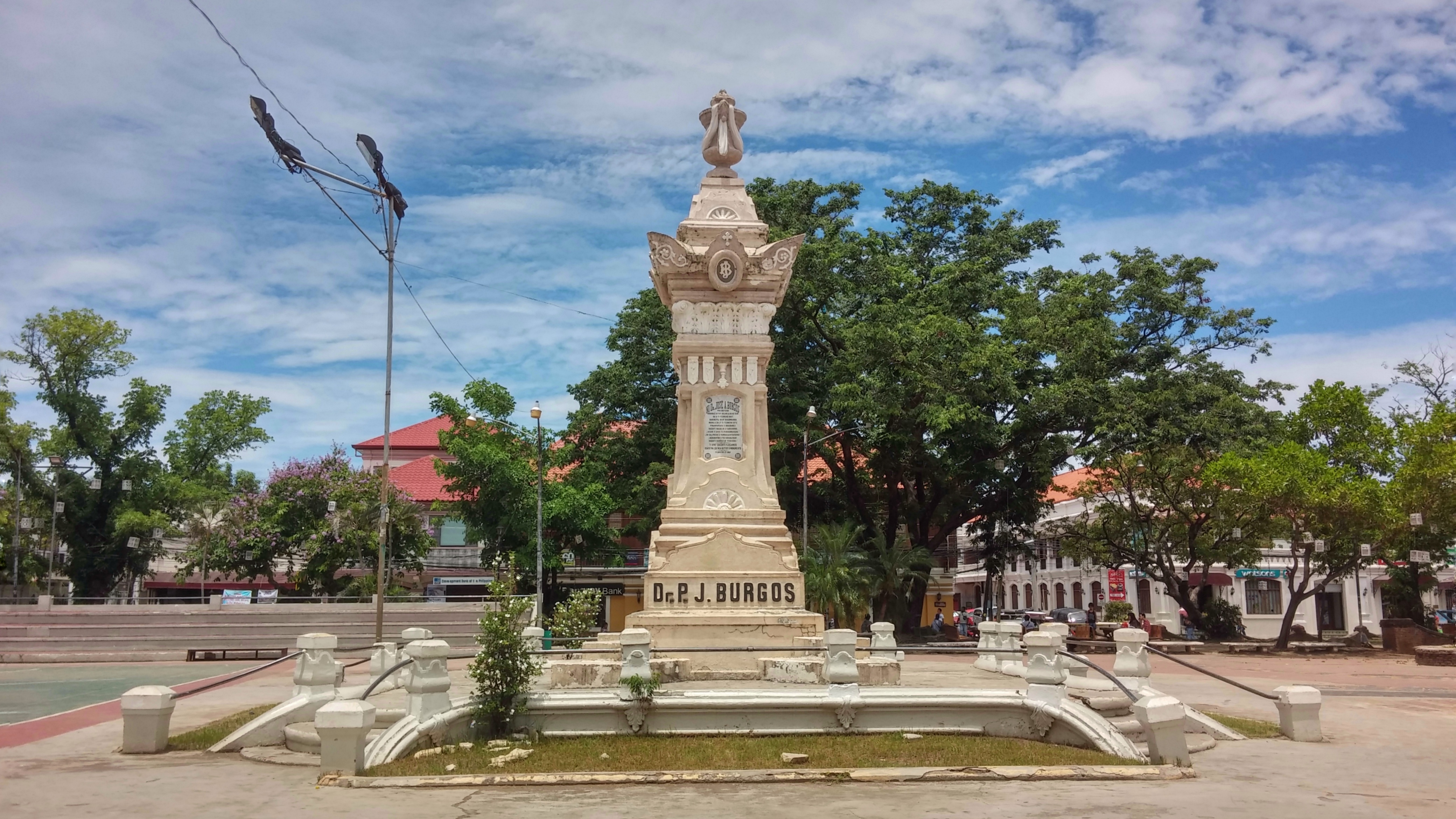 Plaza Burgos (near Plaza Salcedo), Vigan, Ilocos Sur